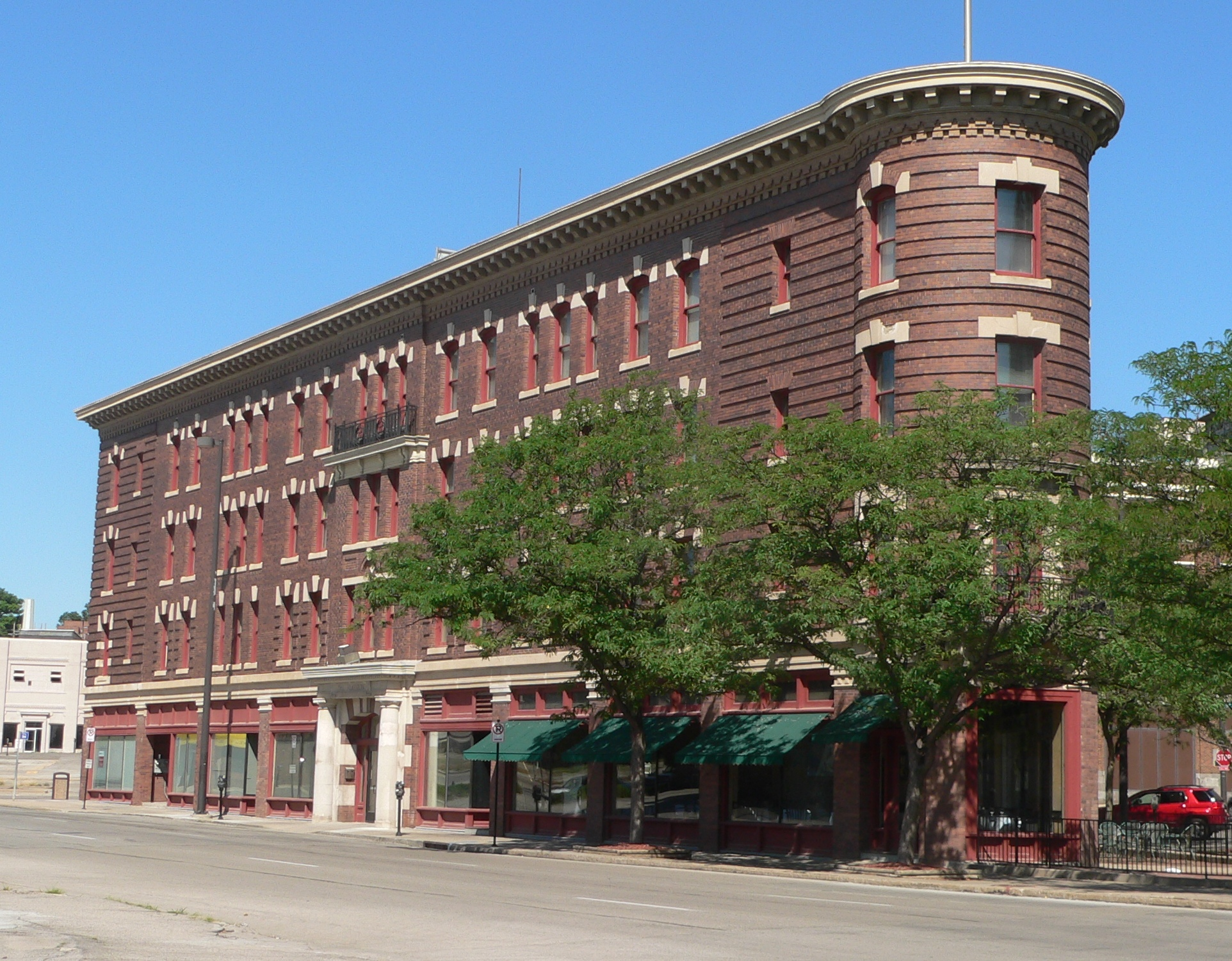 Flatiron Hotel building, located at 1722 St. Mary's Avenue in Omaha, Nebraska; seen from the east. The building stands on a triangular lot bounded by St. Mary's, Howard Street, and 18th Street. St. Mary's is in the foreground; the red car visible through the trees at lower right is parked on Howard.